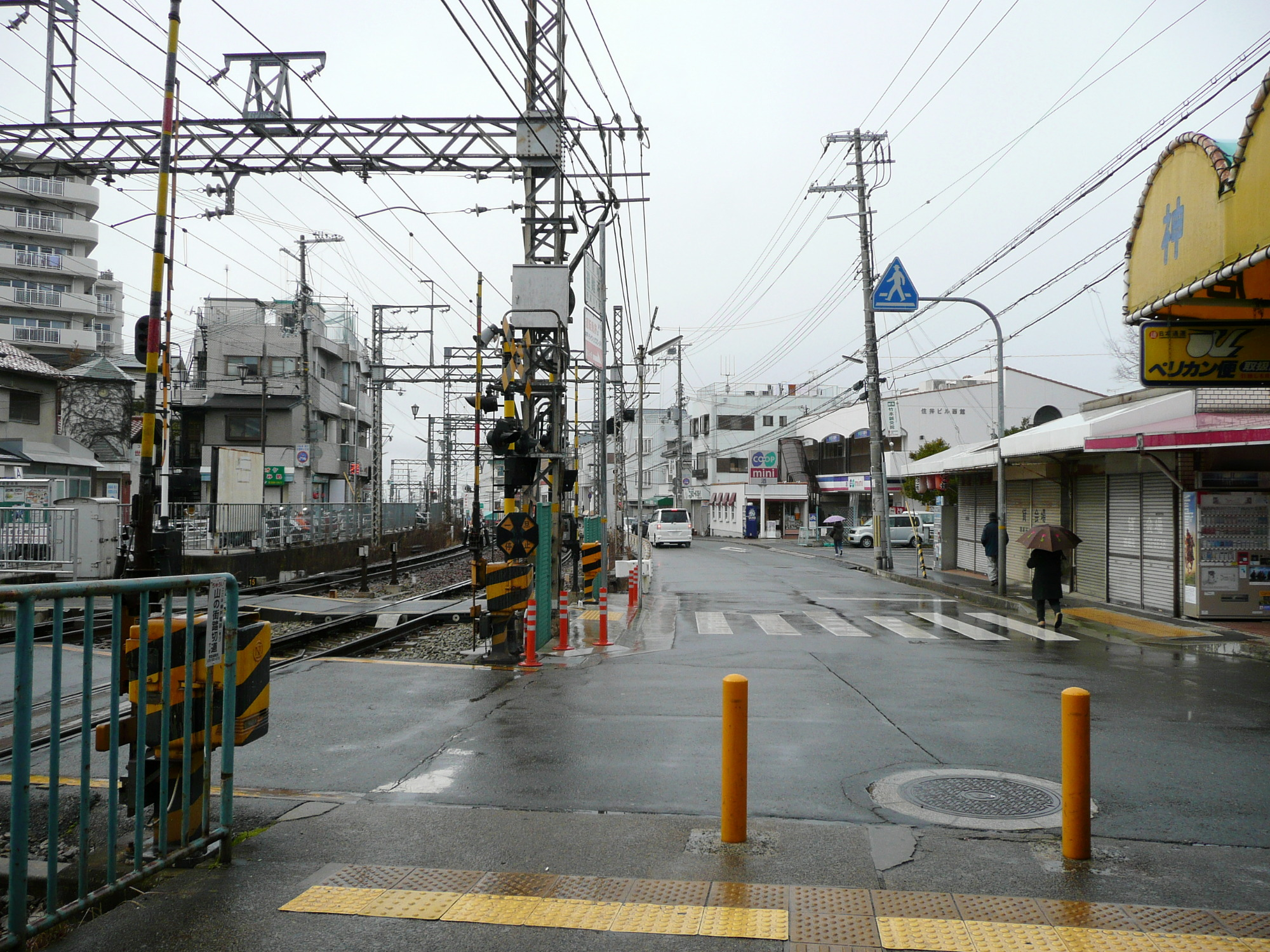 Kobe Electric Railway,Yamanomachi Station plaza. / 神戸電鉄有馬線山の街駅・駅前風景